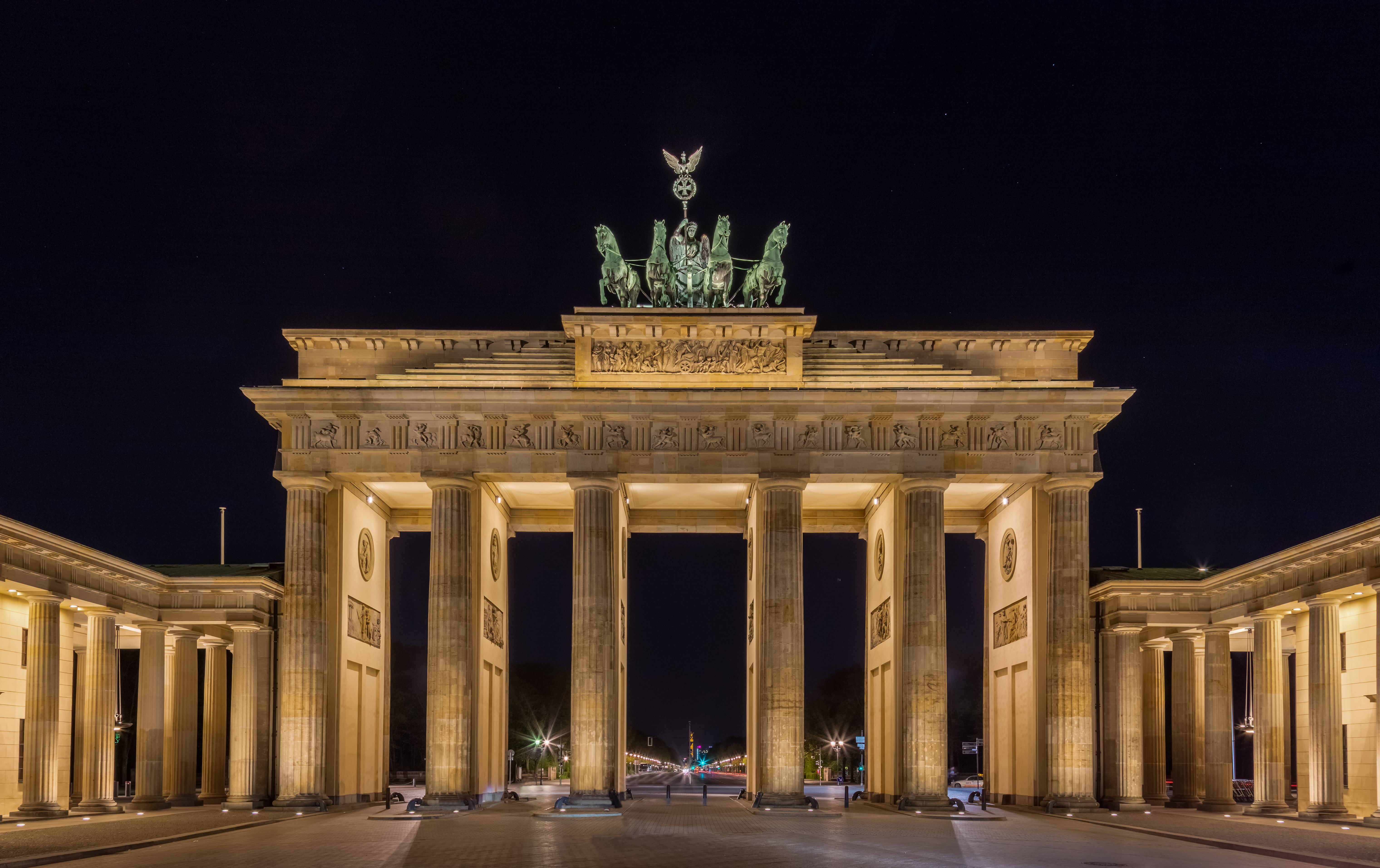 Gate of Brandenburg, Berlin, Germany